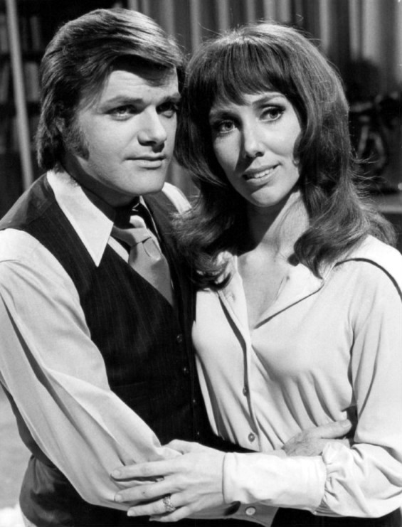 Photo of George Reinholt (Steve Frame) and Victoria Wyndham (Rachel) from the daytime drama Another World.